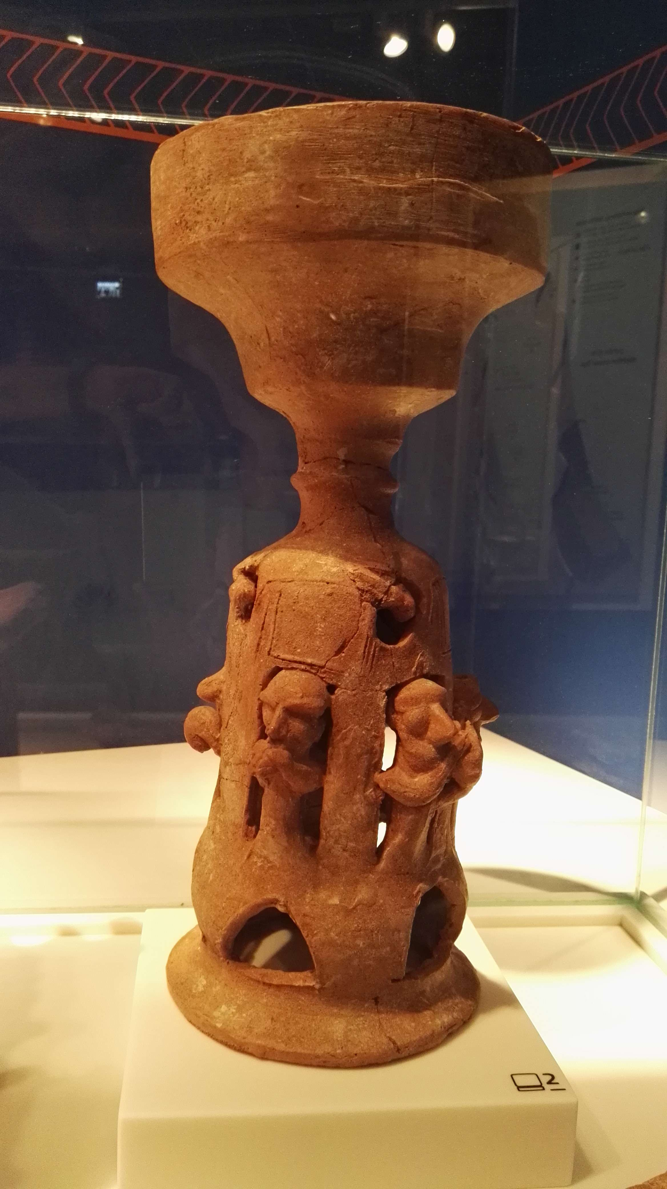 Museum of Philistine culture, Ashdod, Israel.